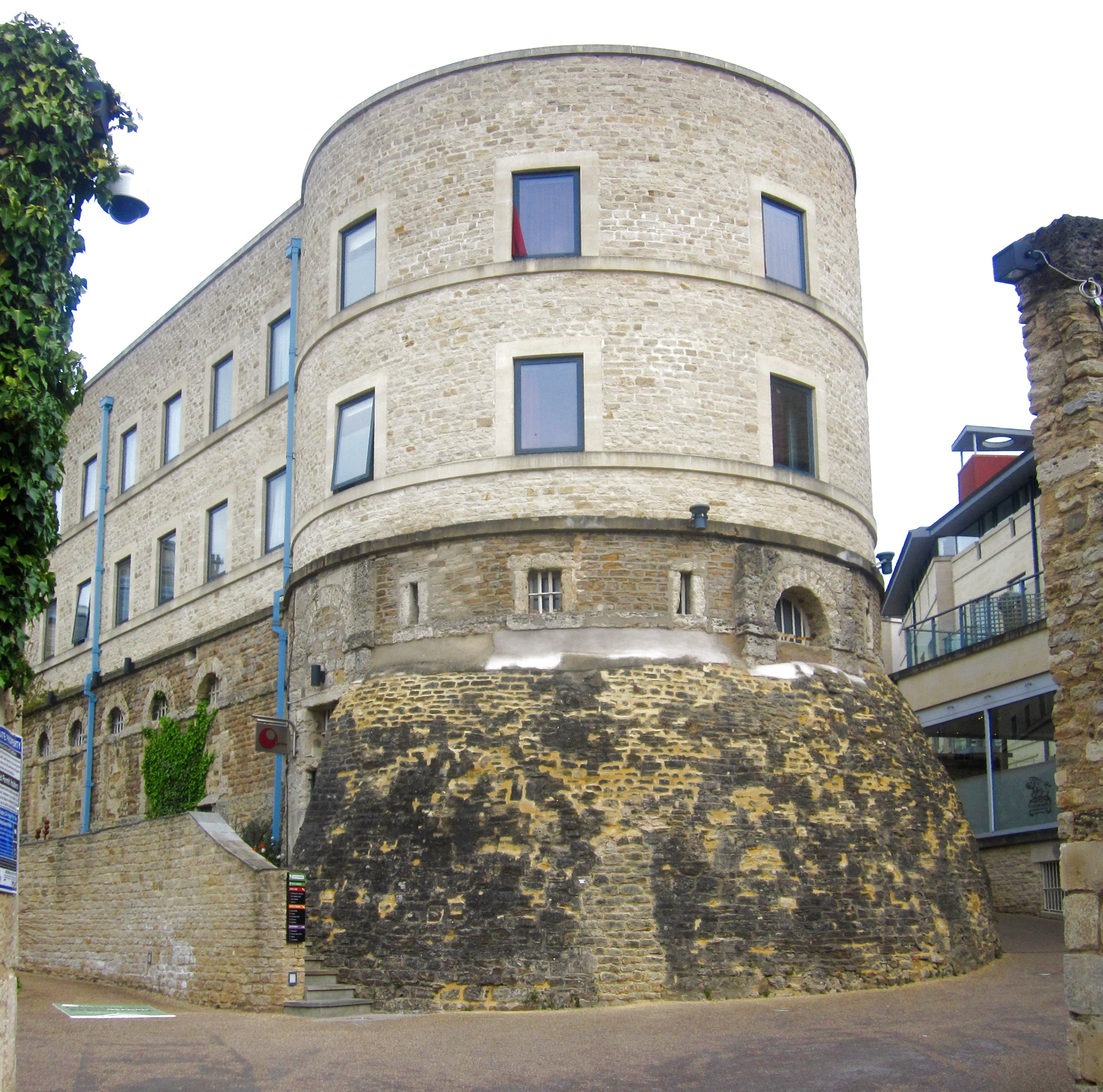 Round Tower and C Wing of Oxford Prison in Oxford Castle, Oxford, England. Buildings and batter by William Blackburn 1785-90, perhaps on foundations of 1235; upper floors rebuilt in early 20th and early 21st centuries.